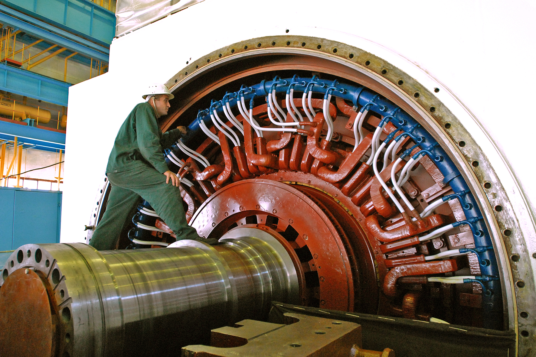 A generator at the end of a steam turbine at the Balakovo Nuclear Power Plant